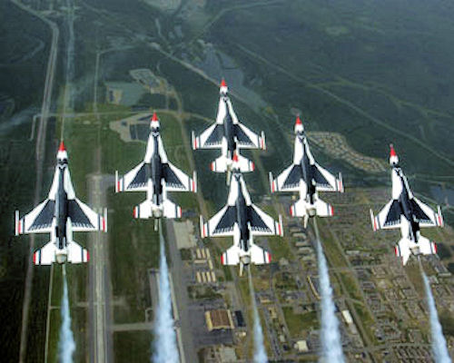 The U.S. Air Force Thunderbirds aerial demonstration team is the Air Force's premier demonstration team. The Thunderbirds operate the Lockheed/Martin F-16 C model.